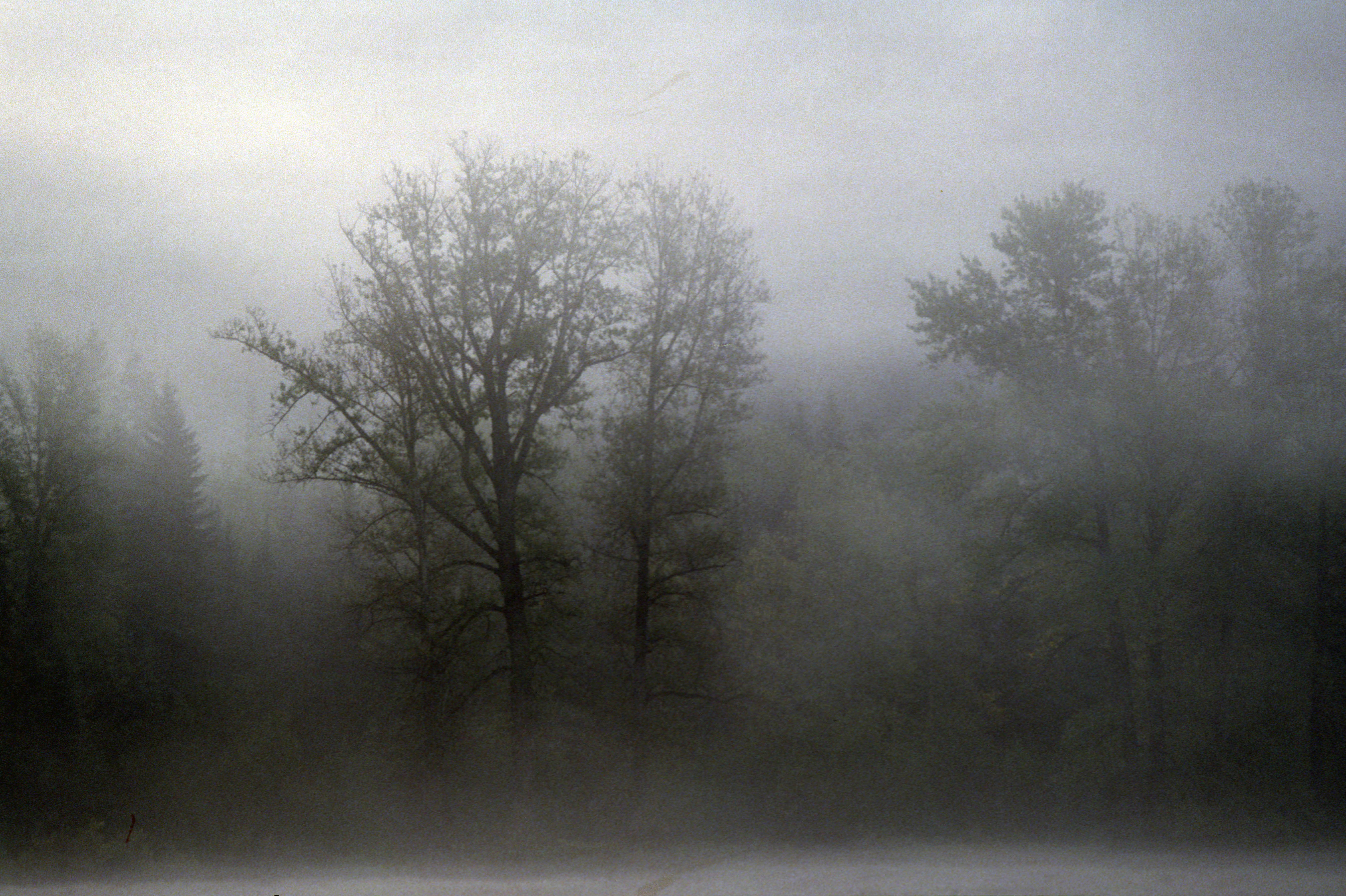 Okanogan-Wenatchee National Forest, morning fog shrouds trees.jpg